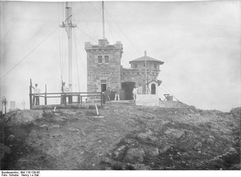 Tsingtau, China - Sailors in front of a tower